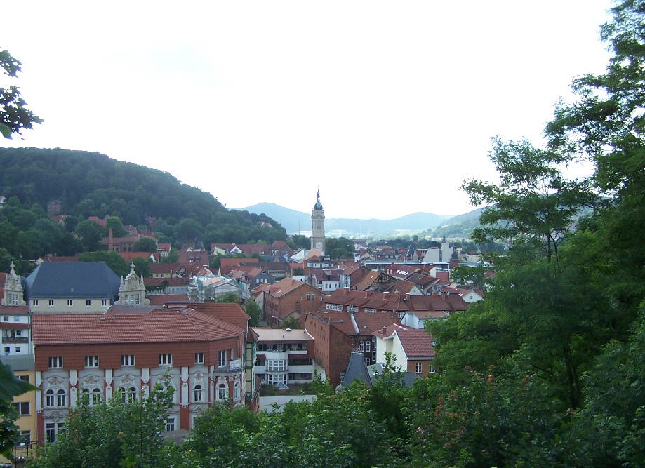 The inner city around St.Georg church.